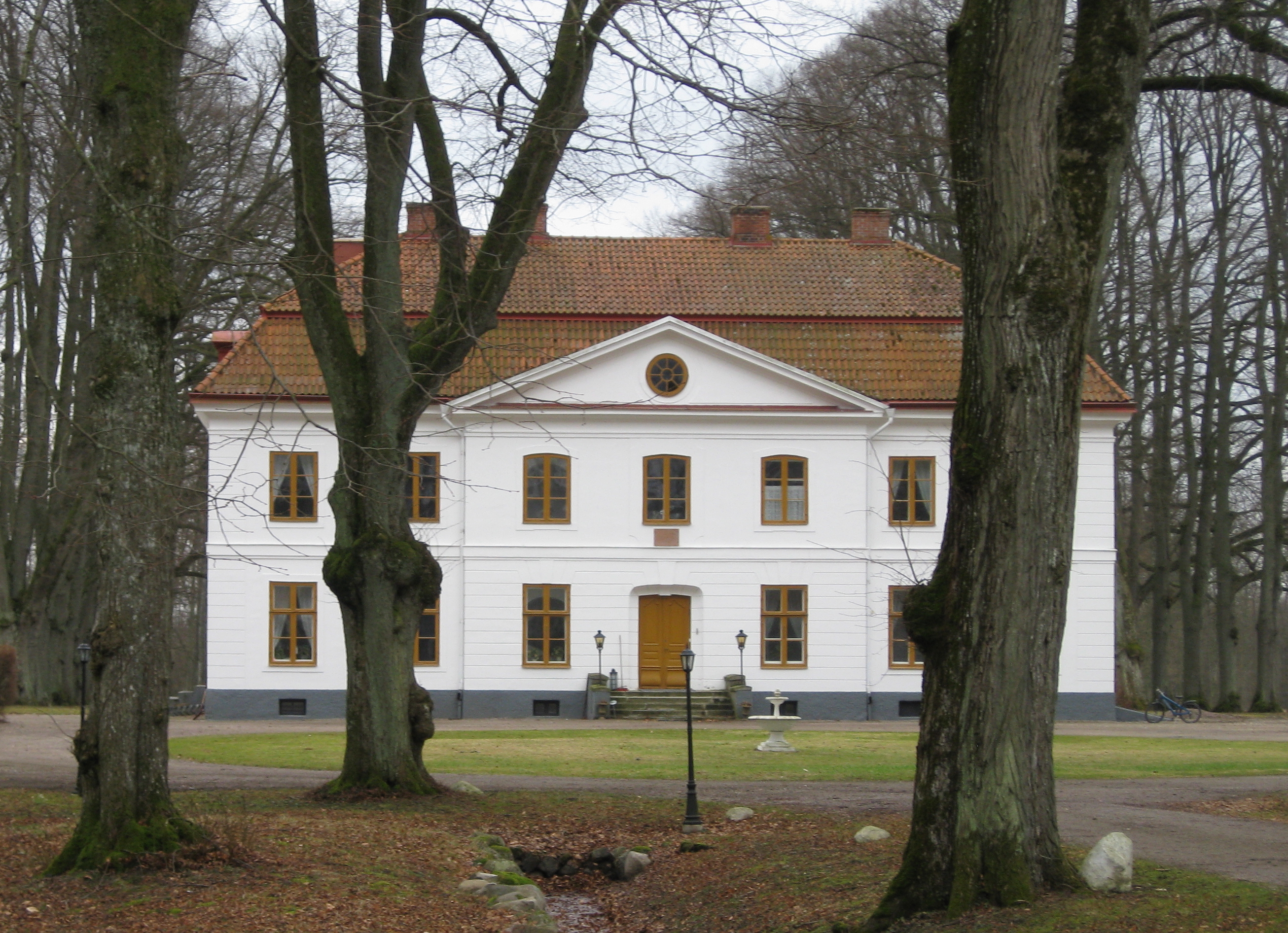 Tullesbo mansion, Skåne, Sweden